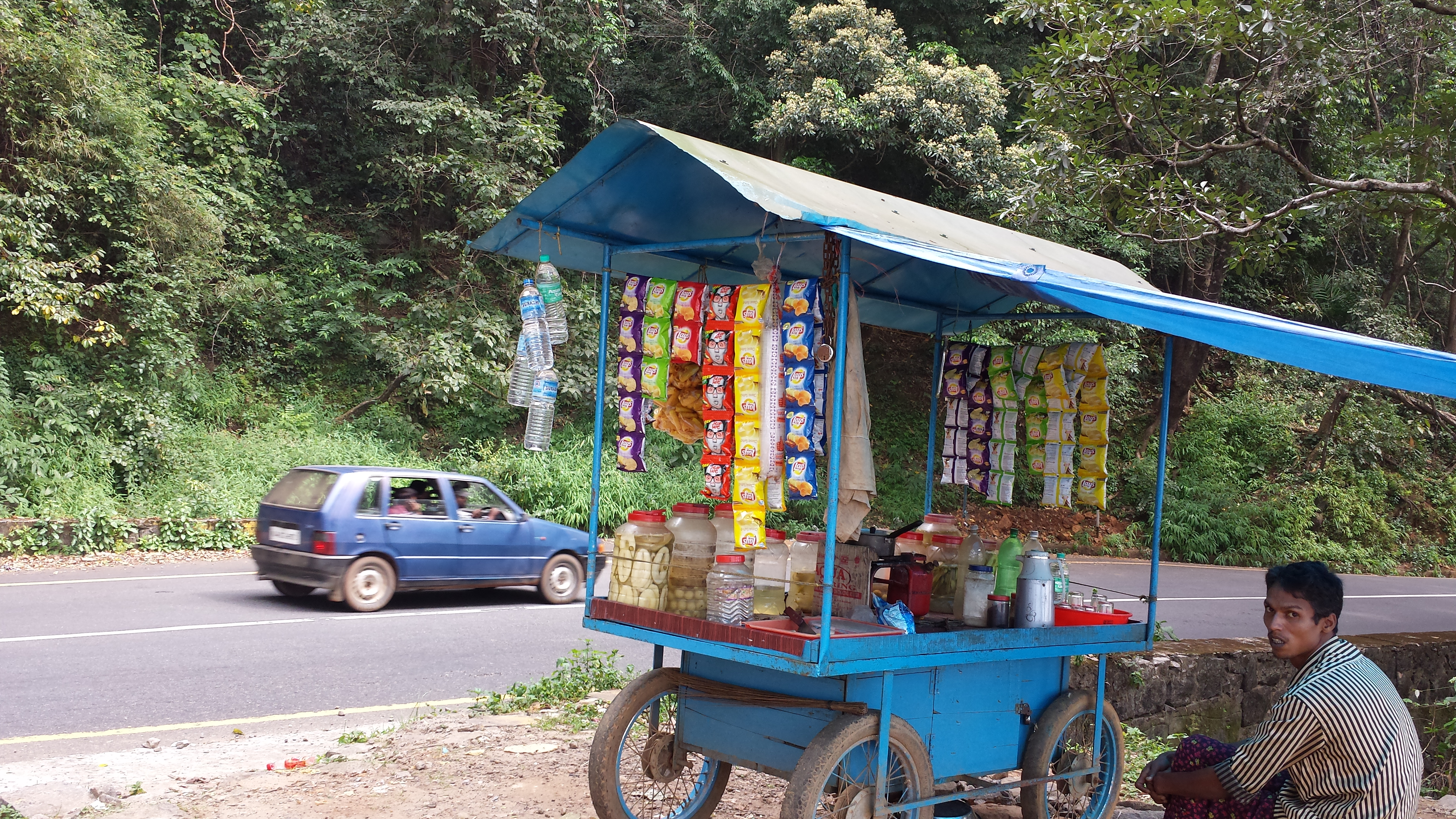 wayanad churam @Kerala, India